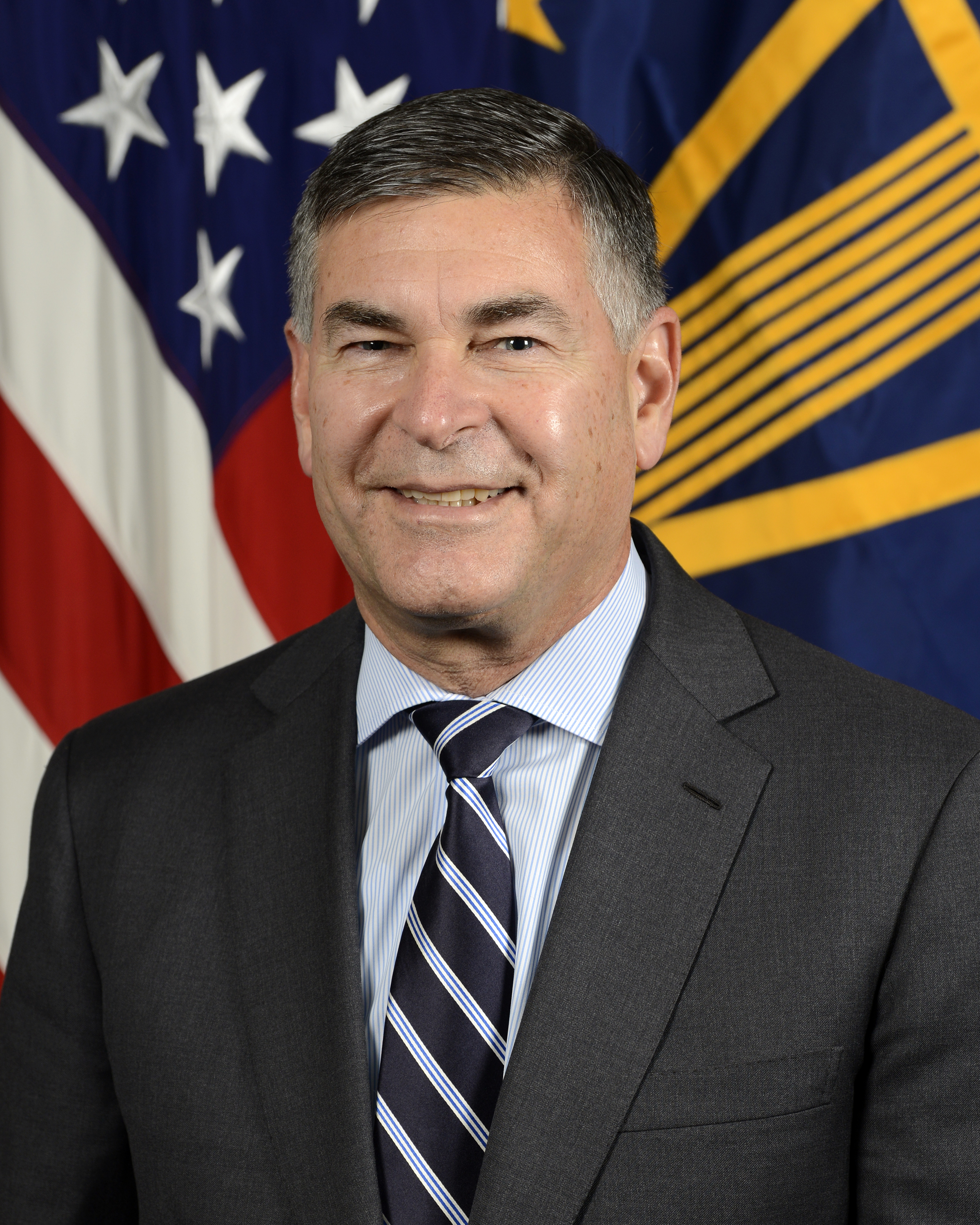 Michael A. Brown, Director of Defense Innovation Unit, poses for his official portrait in the Army portrait studio at the Pentagon in Arlington, Va, Nov. 01, 2018. (U.S. Army photo by William Pratt)